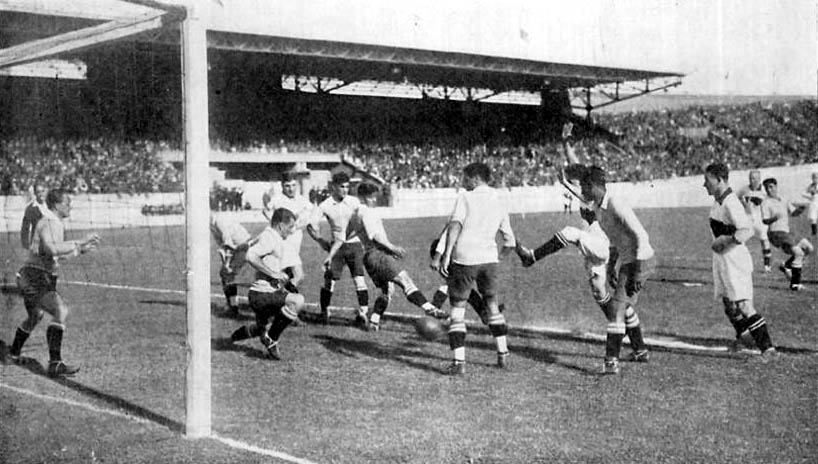 Germany national football team scoring v. the Uruguay side, that finally won by 4-1.